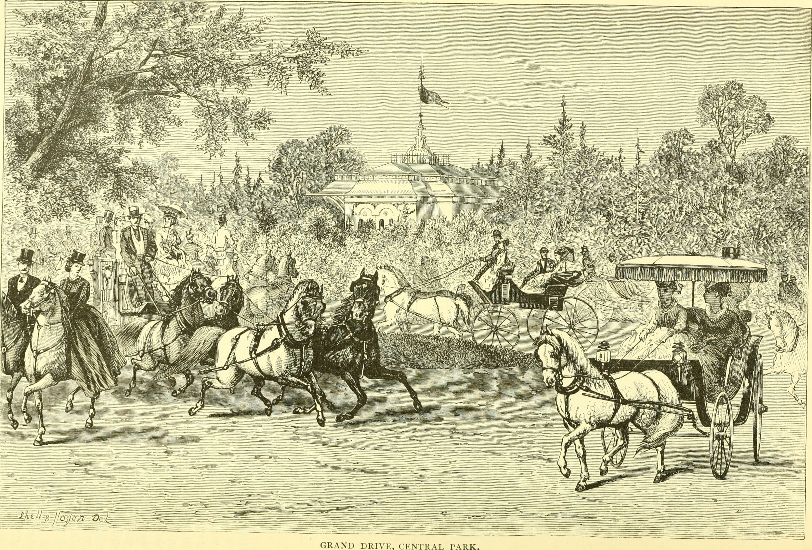 Title: The Pennsylvania railroad: its origin, construction, condition, and connections. Embracing historical, descriptive, and statistical notices of cities, towns, villages, stations, industries, and objects of interest on its various lines in Pennsylvania and New Jersey Year: 1875 (1870s) Authors: Sipes, William B., d. 1905 Pennsylvania Railroad. Passenger Dept Subjects: Pennsylvania Railroad Publisher: Philadelphia (Pennsylvania Railroad Co.) Passenger Dept. Text Appearing Before Image: ngdale, be-tween One Hundred and Fifteenth andOne Hundred and Twentieth streets. Thegrounds include about forty acres, hand-somely and tastefully laid out. In location,arrangement, and in all other respects, it furnishes an elegant retreat for its unfortunateinmates. The New York Orphan Asylumis beautifully situated on the bank of theHudson, between Seventy-third and Seventy-fourth streets. Its grounds occupy aboutnine acres, and in its design and appoint-ments it is a noble charity. The Institutionfor the Deaf and Dumb is on WashingtonHeights, and is liberally endowed and wellmanaged. The Institution for the Blindoccupies the block between Thirty-thirdand Thirty-fourth streets and Eighth andNinth avenues, and is a beautiful specimenof architecture. The Cooper Union occupiesthe block bounded by Seventh and Eighthstreets and Third and Fourth avenues. _ Itcontains a large and well-supplied reading-room, a library, an art gallery, and a numberof instruction and lecture rooms, free to all Text Appearing After Image: NEW YORK. 41